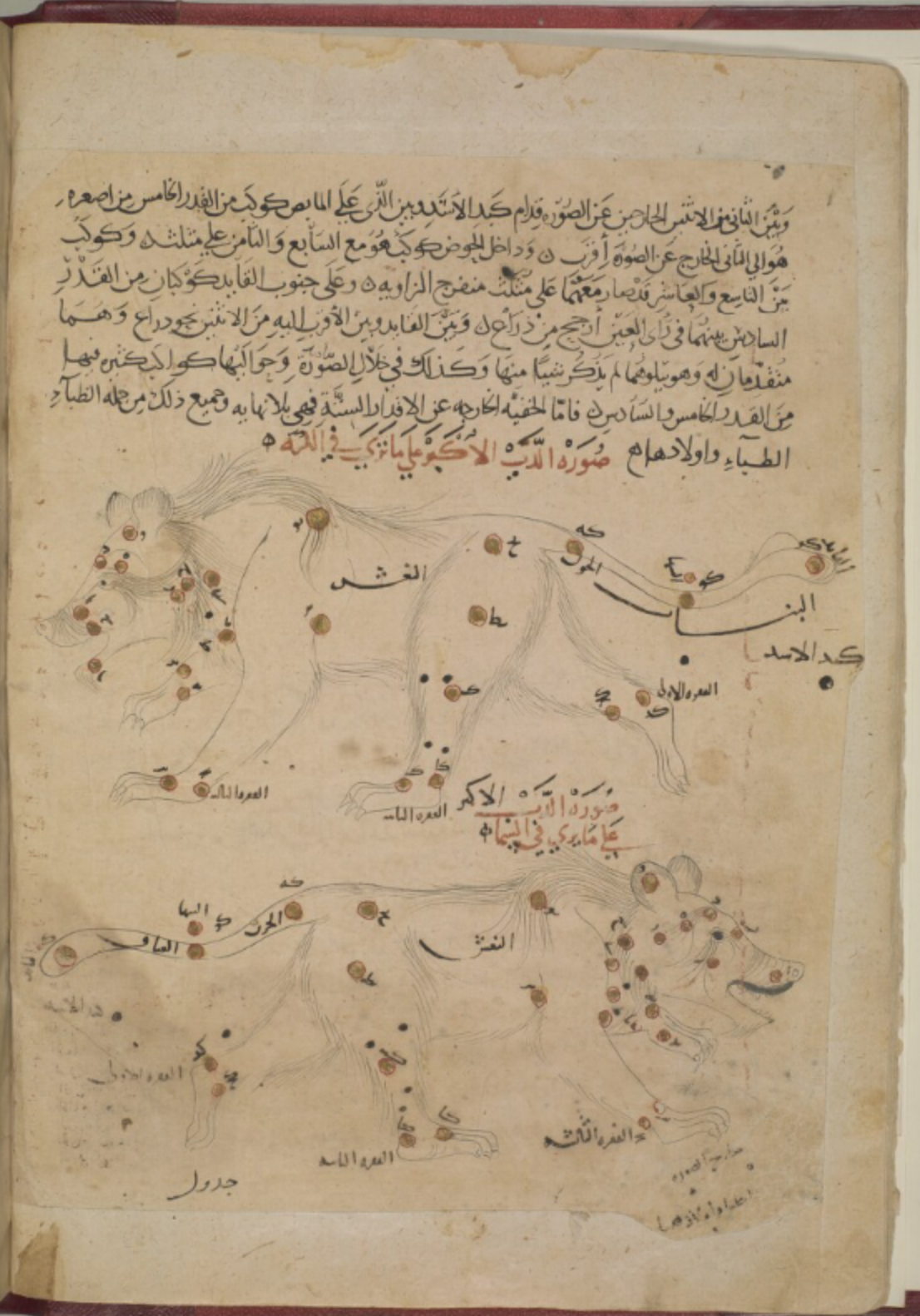 Page of an Arabic manuscript of the Book of Fixed Stars by al-Sufi showing the constellation of Ursa Major